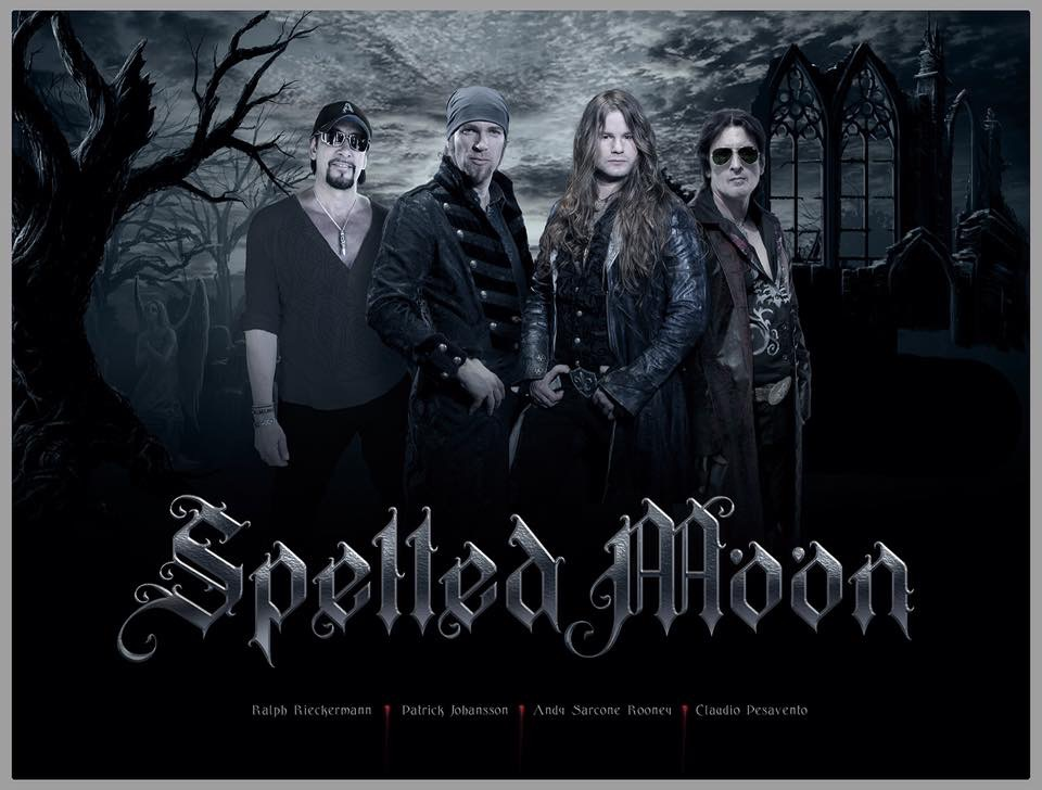 Spelled Moon